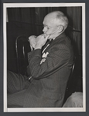 former Congressman Charles M. Thomson.